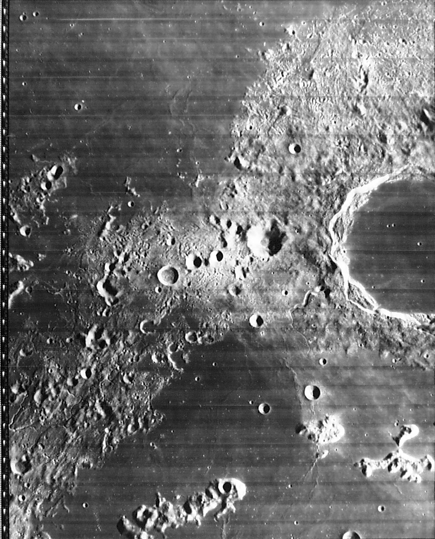 Montes Teneriffe - group of two mountains in the lower right corner of the photo